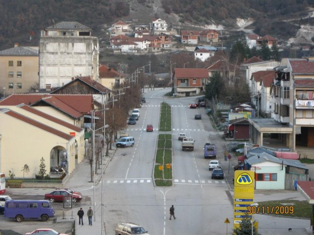 Panorama of Makedonski Brod